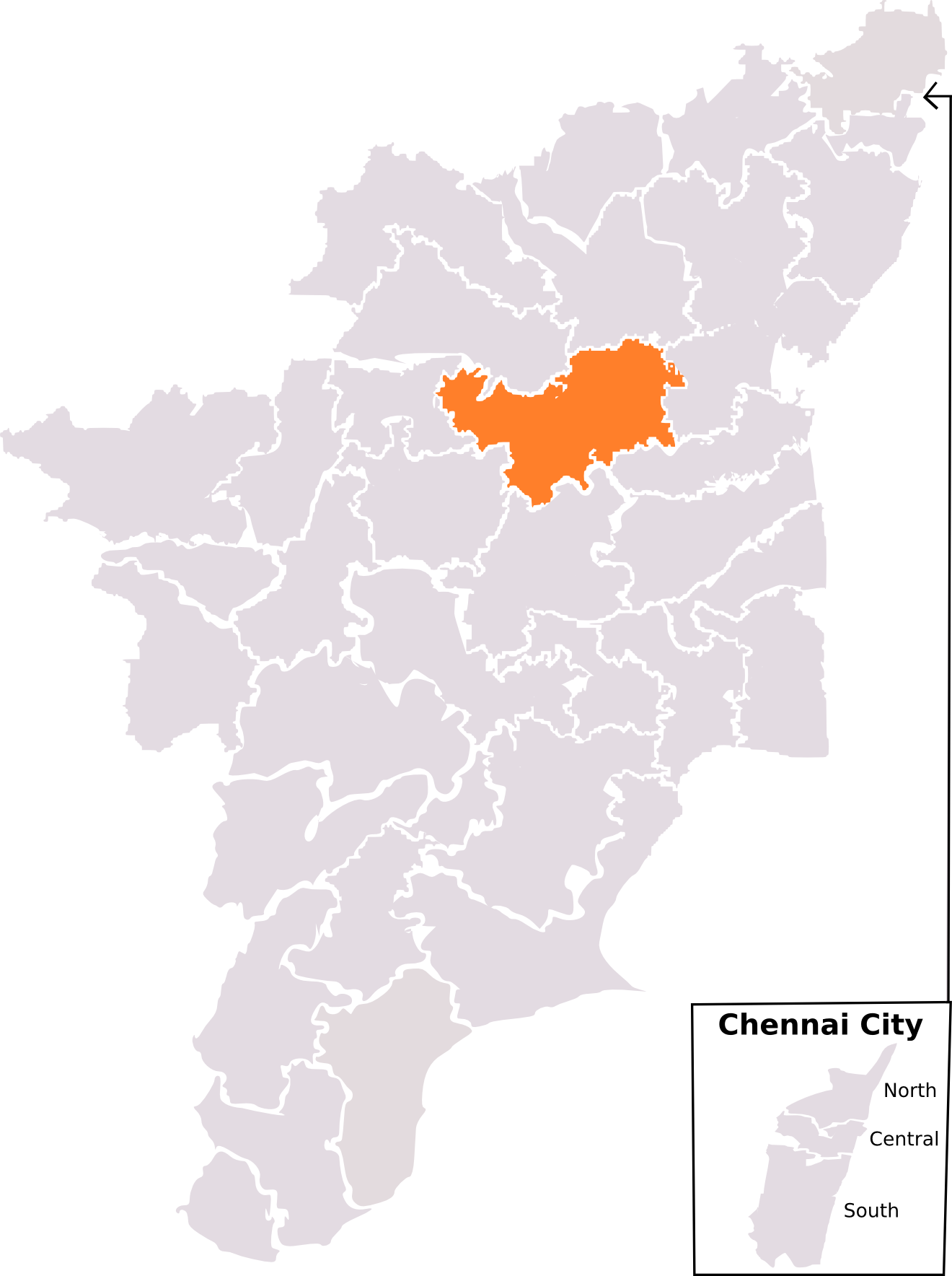 Lok Sabha Election map labeling each constituency for individual pages for Tamil Nadu after delimitation starting 2009 election. Map is based on ECI drawn map from